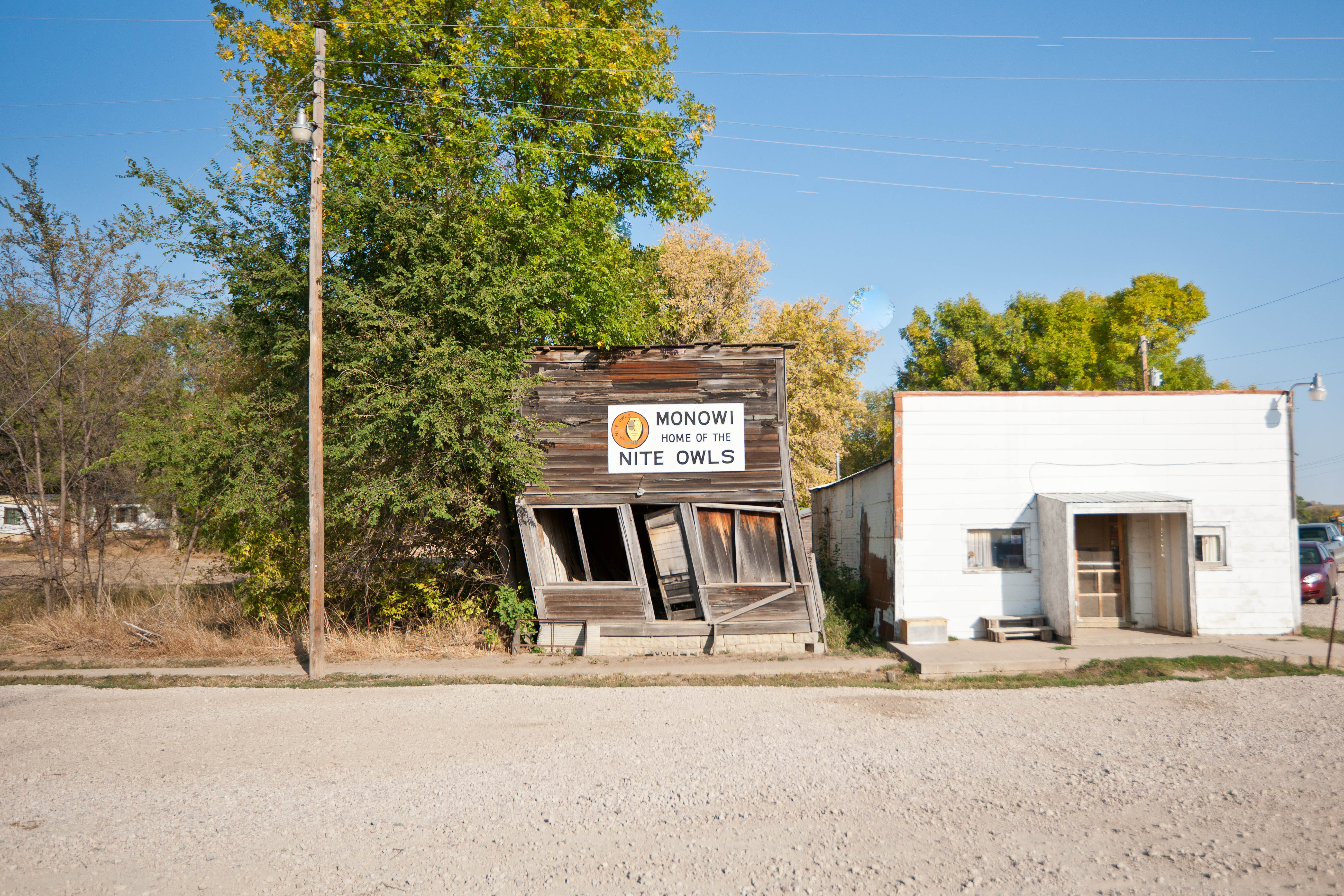 From